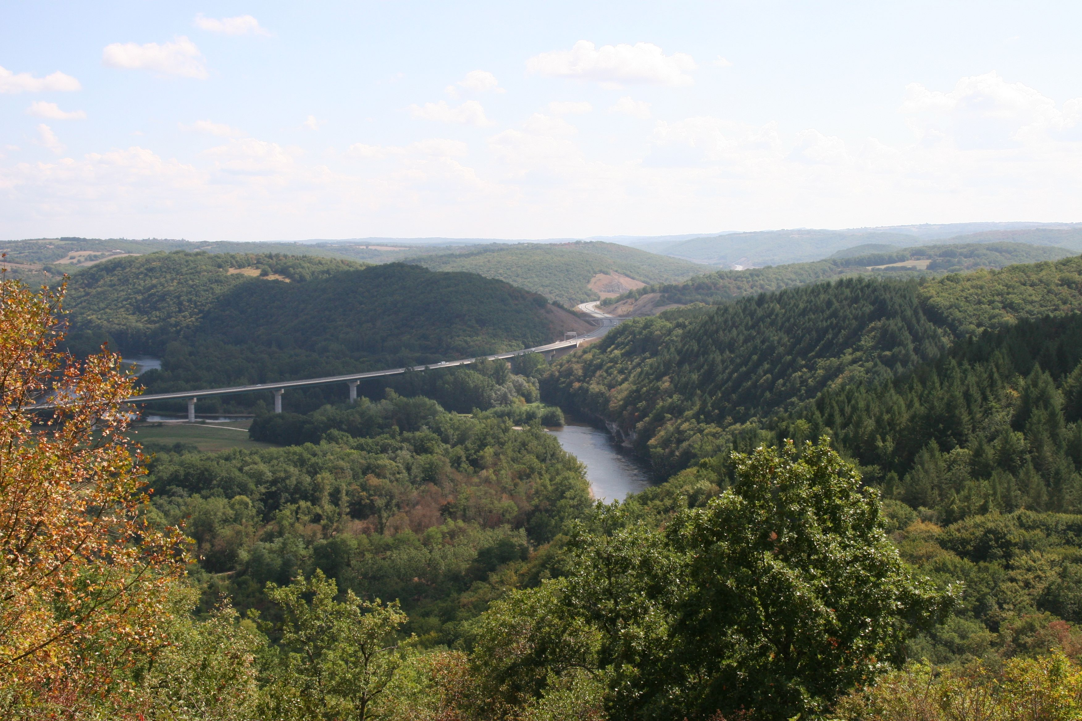 France: Motorway A20 and the river Dordogne